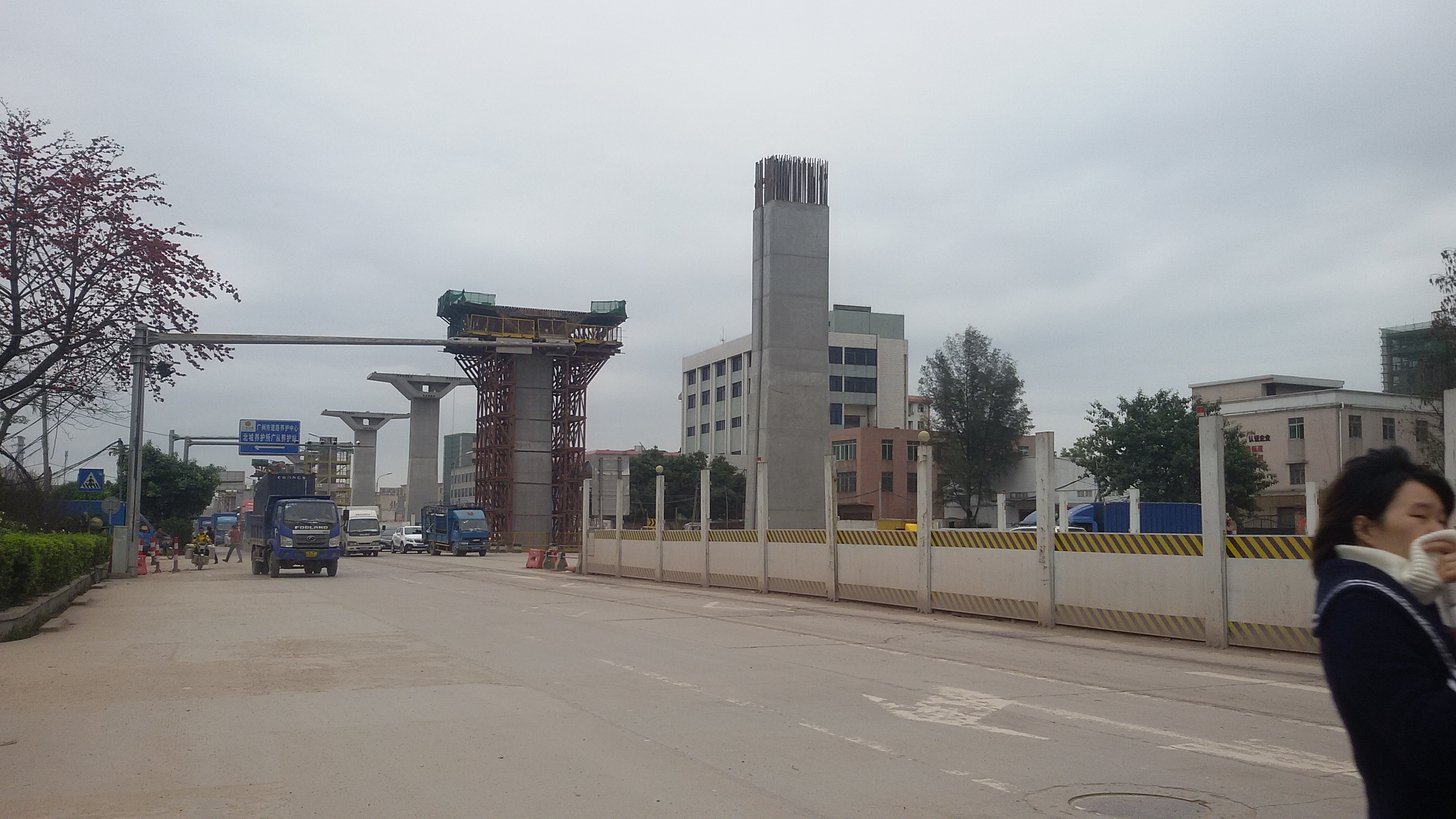 Zhongluotan Station was under construction since Mar. 14th., 2017 粵語: 2017年3月14號，鐘落潭站重喺度起緊。